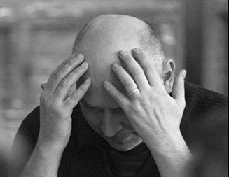 Rolandas Augustinas Atkočiūnas